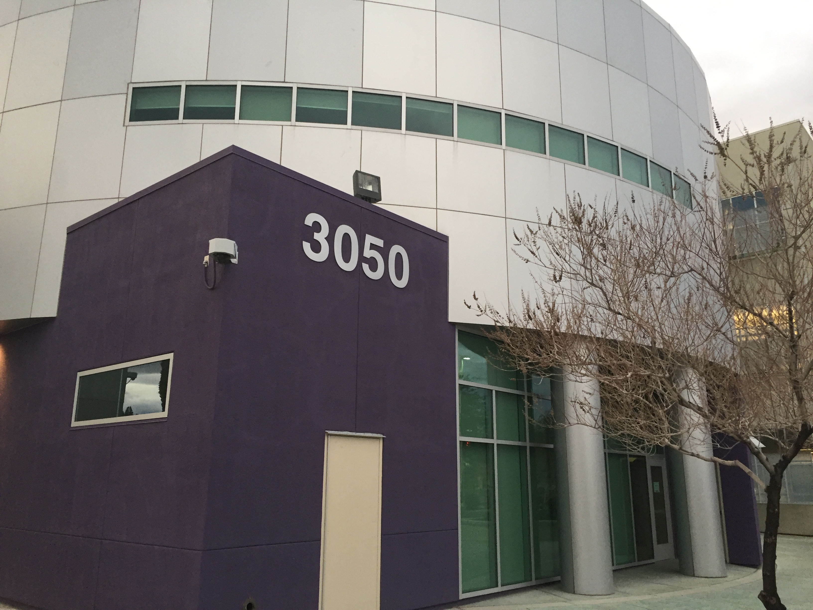 Headquarters of Vegas PBS in Las Vegas, Nevada, United States